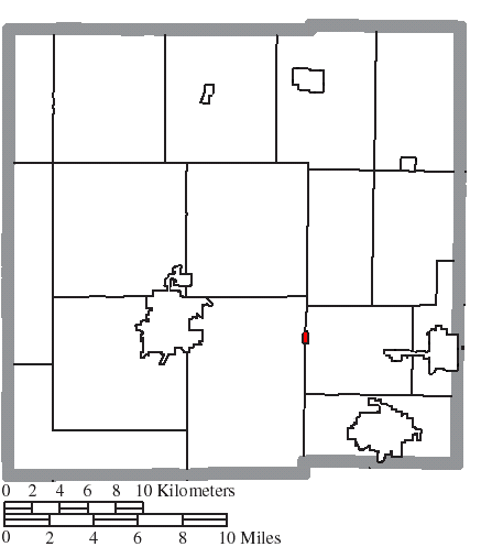 Map of the municipal and township boundaries of Crawford County, Ohio, United States, as of the 2000 census, with the location of the village of North Robinson highlighted. Township borders are shown only in unincorporated areas in order to differentiate incorporated and unincorporated areas more clearly.